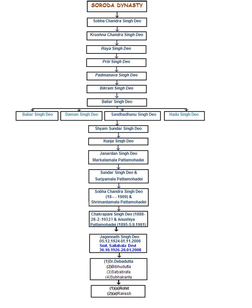 A copyright is not required for the tree structure